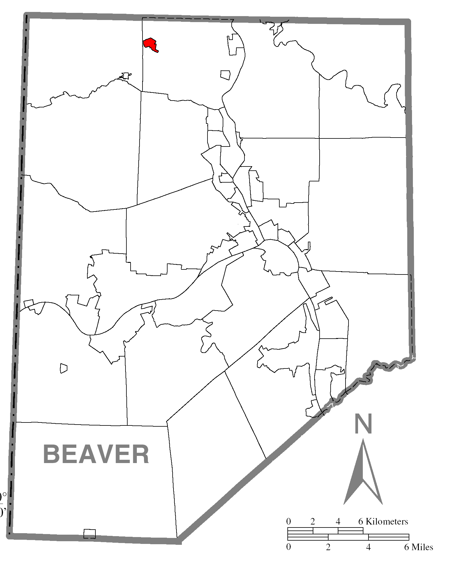 A map of Beaver County showing New Galilee, Pennsylvania (alternate) highlighted on the map.